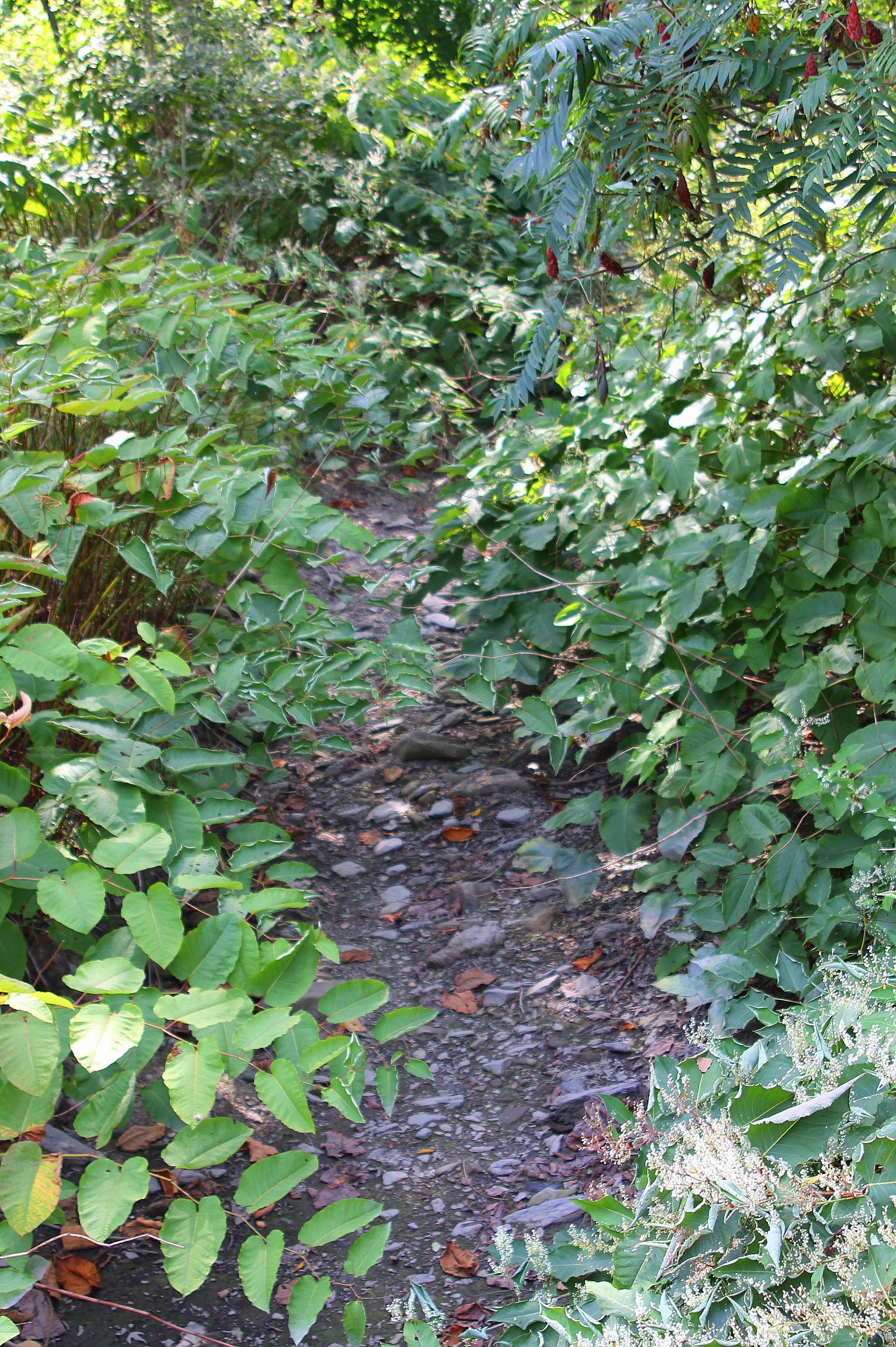 Locust Creek looking upstream from Pennsylvania Route 901